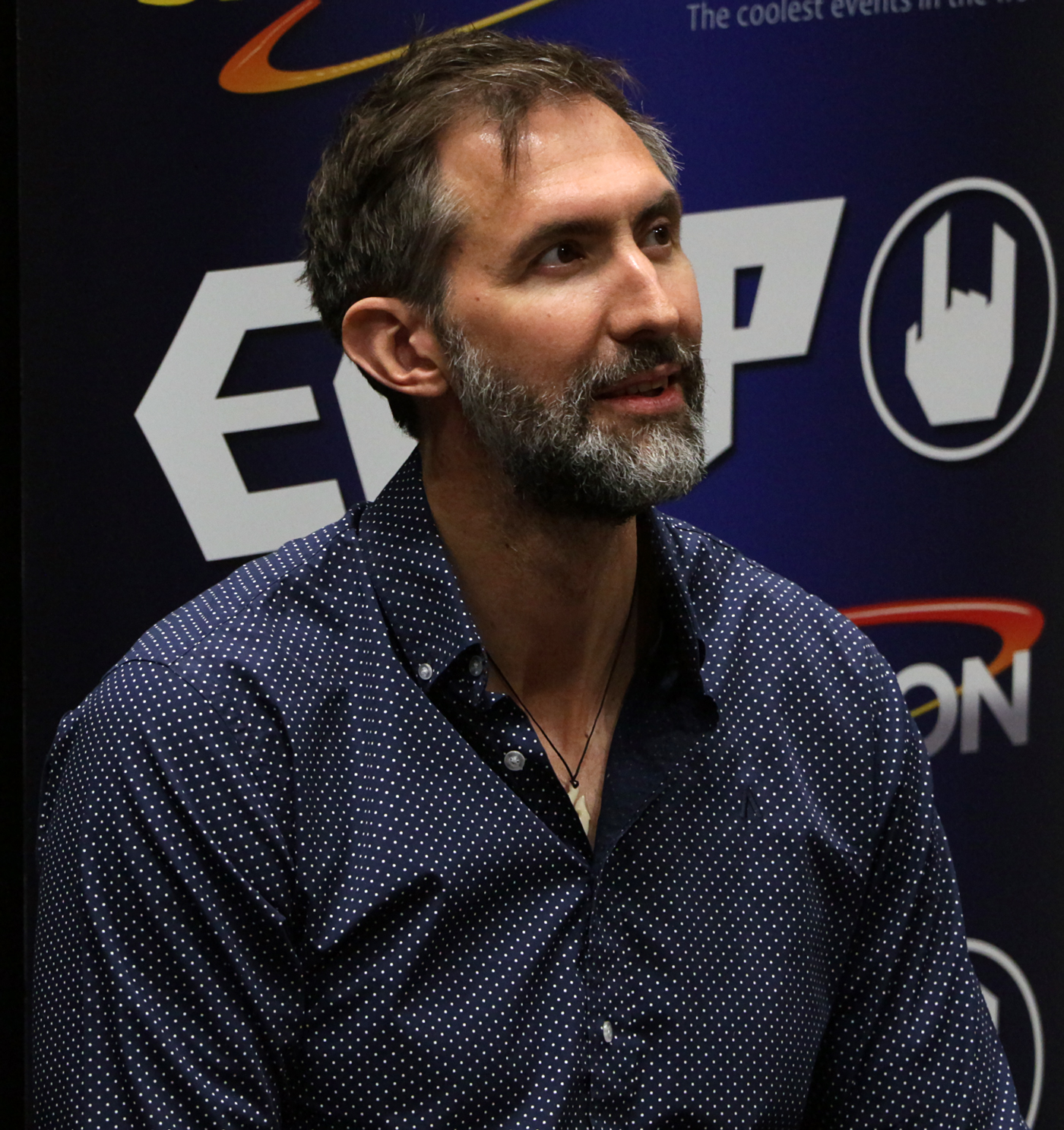 Ian Whyte on stage @ 2018's Glasgow Film and Comic Con